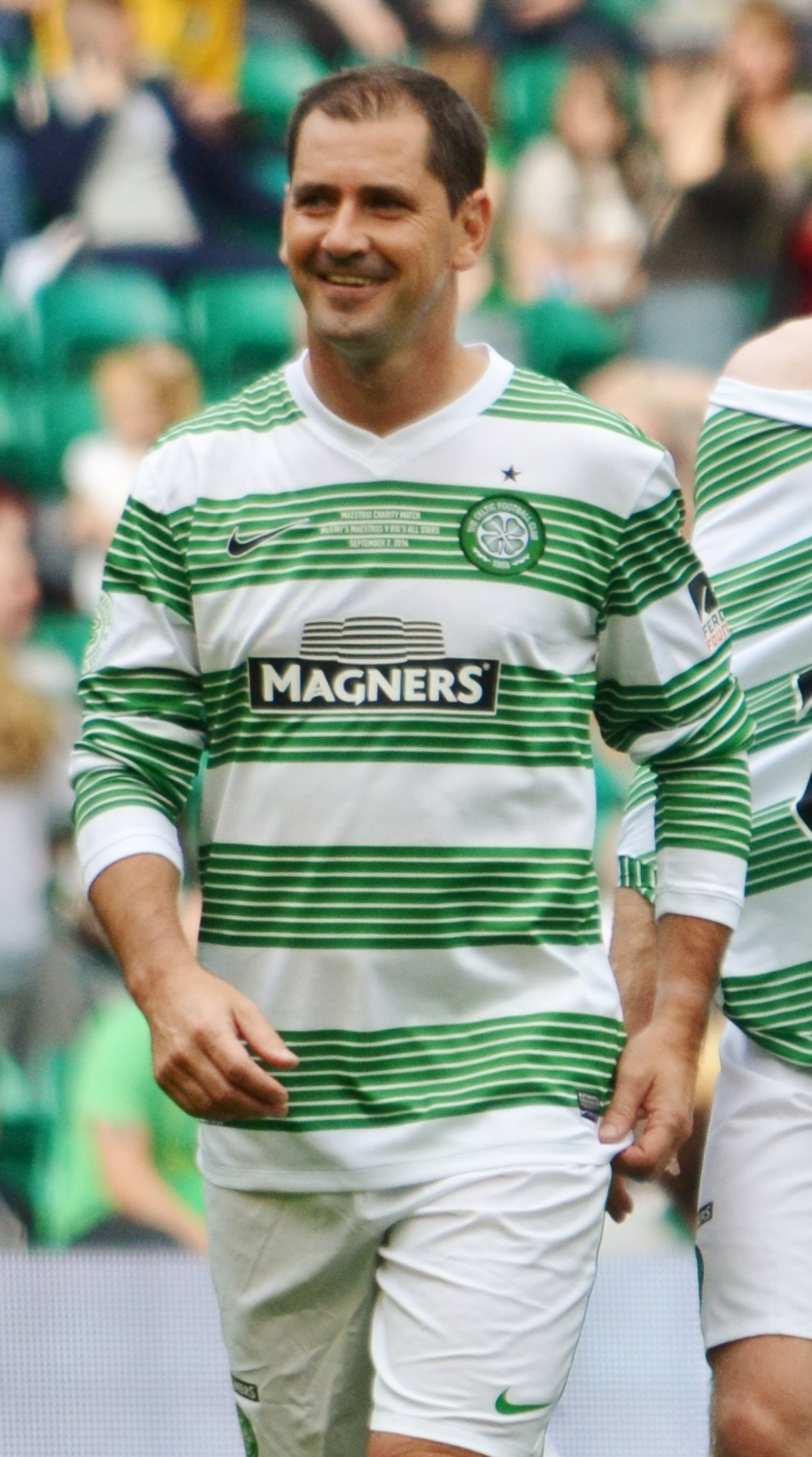 Jackie McNamara playing in a charity match at Celtic Park, Glasgow on 7 September 2014